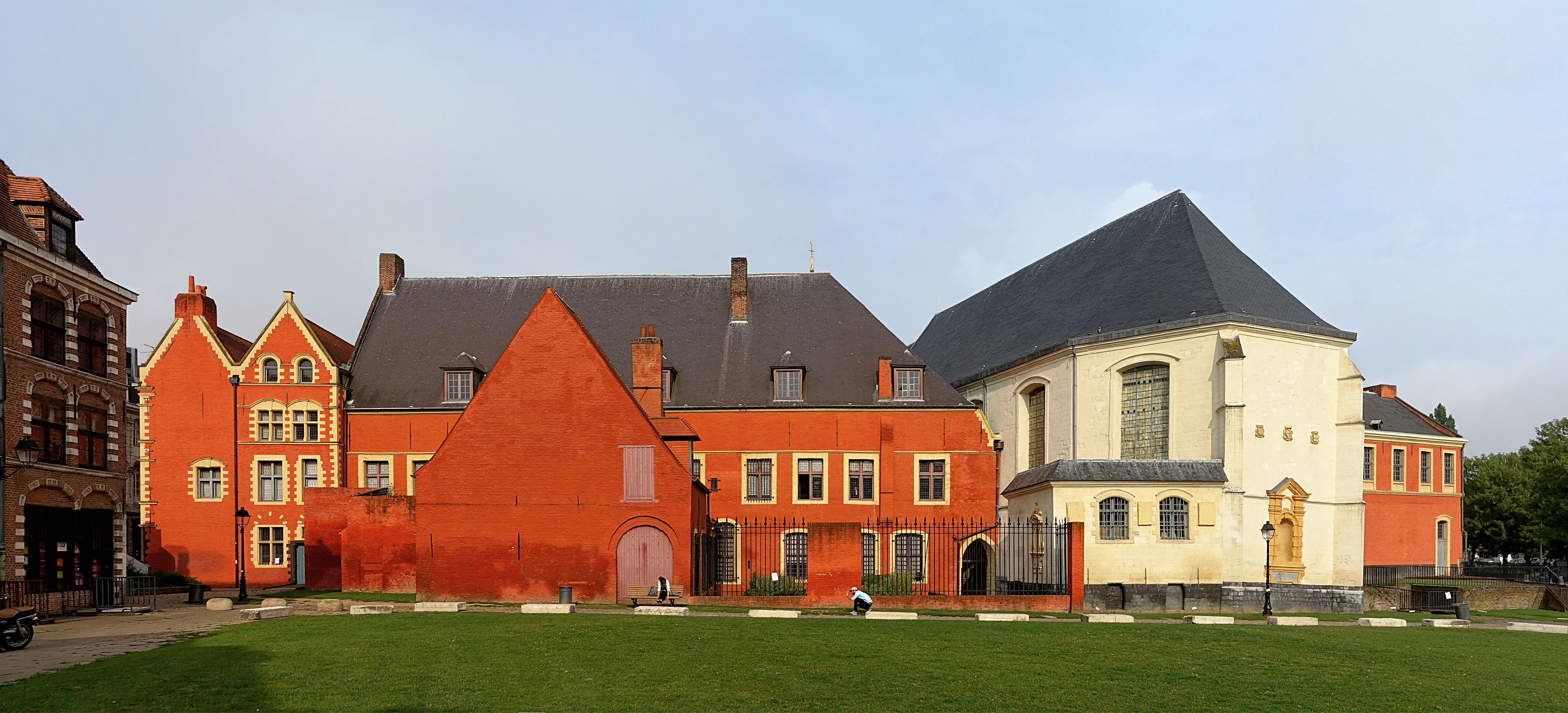 Back view of Hospice Comtesse in Lille, France. .